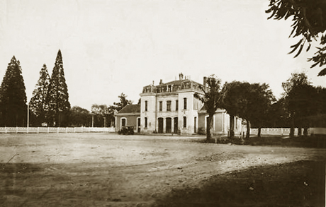 Montendre railway station, photo 1900 or earlier